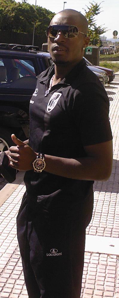 Yves Desmarets in Guimarães, near the Sports Complex of Vitória de Guimarães.